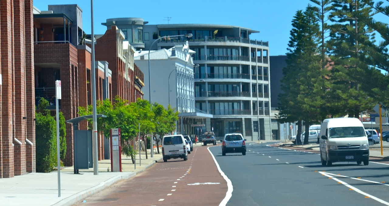 Beach Street Fremantle looking toward Parry